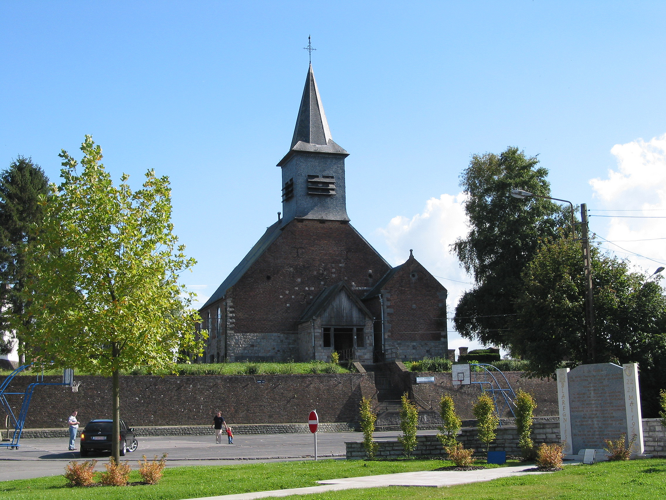 Blaregnies (Belgium), the St. Gaugericus church (XVI-XVIIIth centuries).